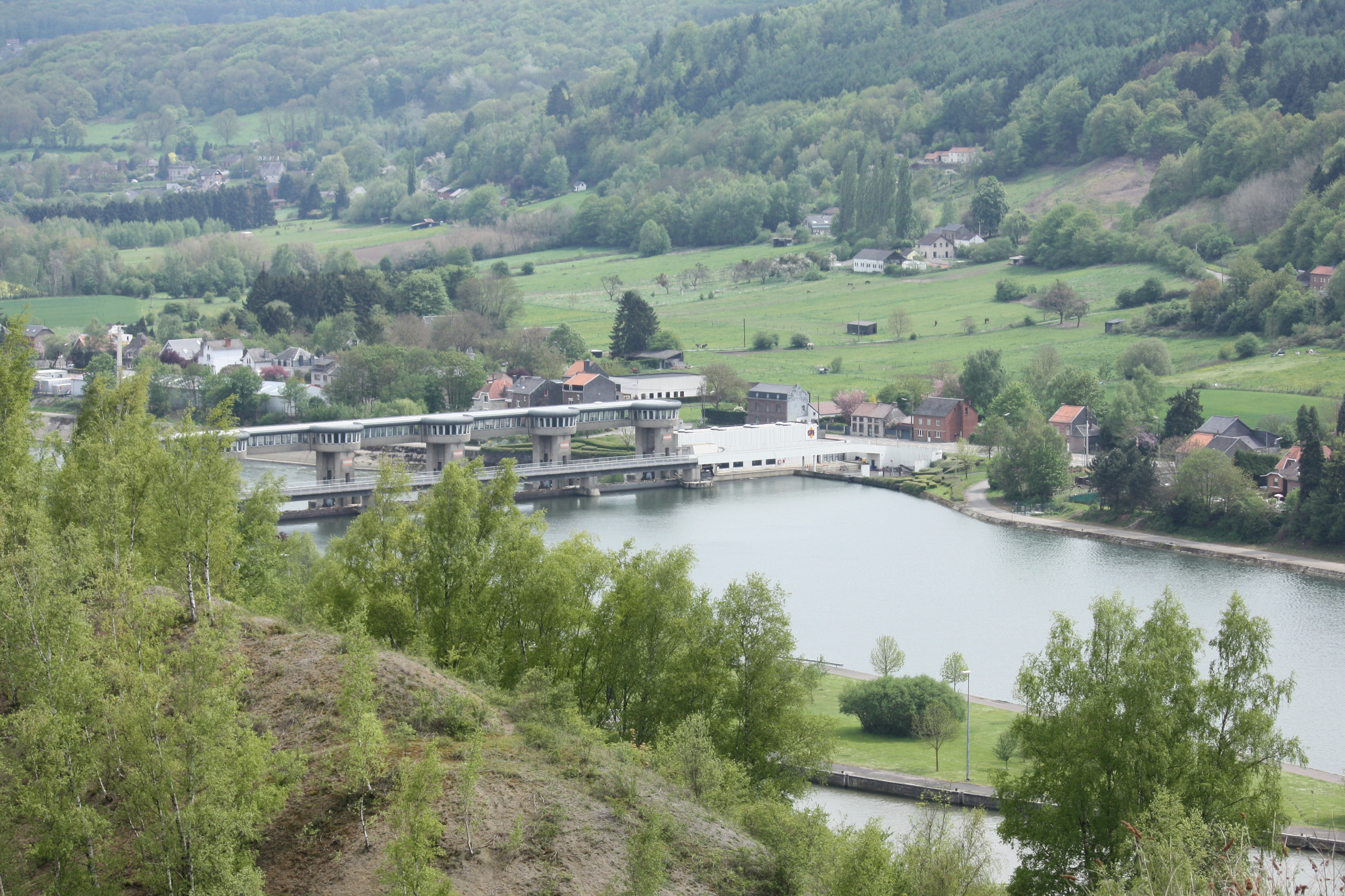 Lock in Andenne (view from the natural reserve of Sclaigneaux)